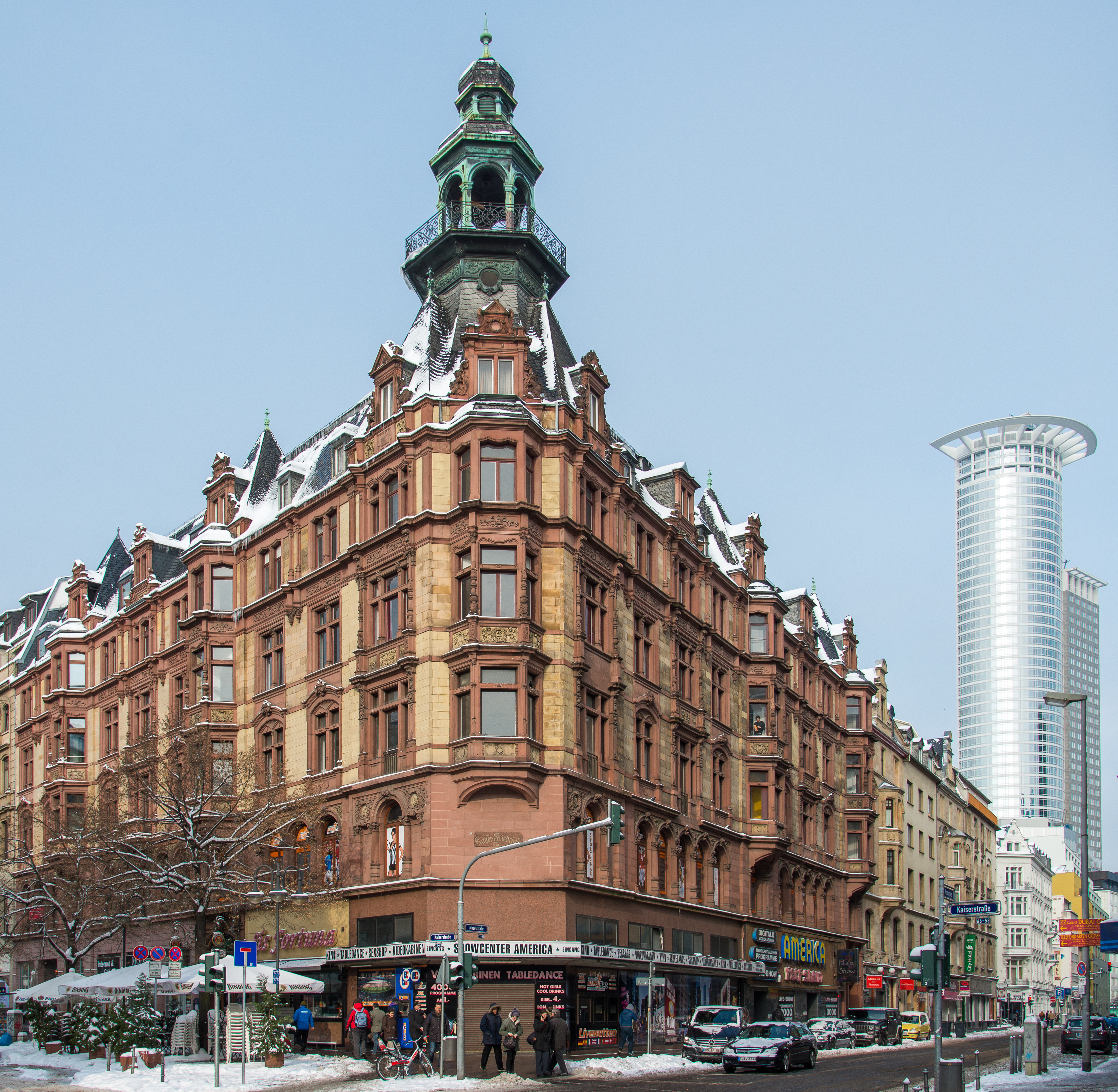 Frankfurt am Main, Kaiserstraße 68 / Moselstraße 29 (Kaiser-Friedrich-Bau). Cultural monument of the city.